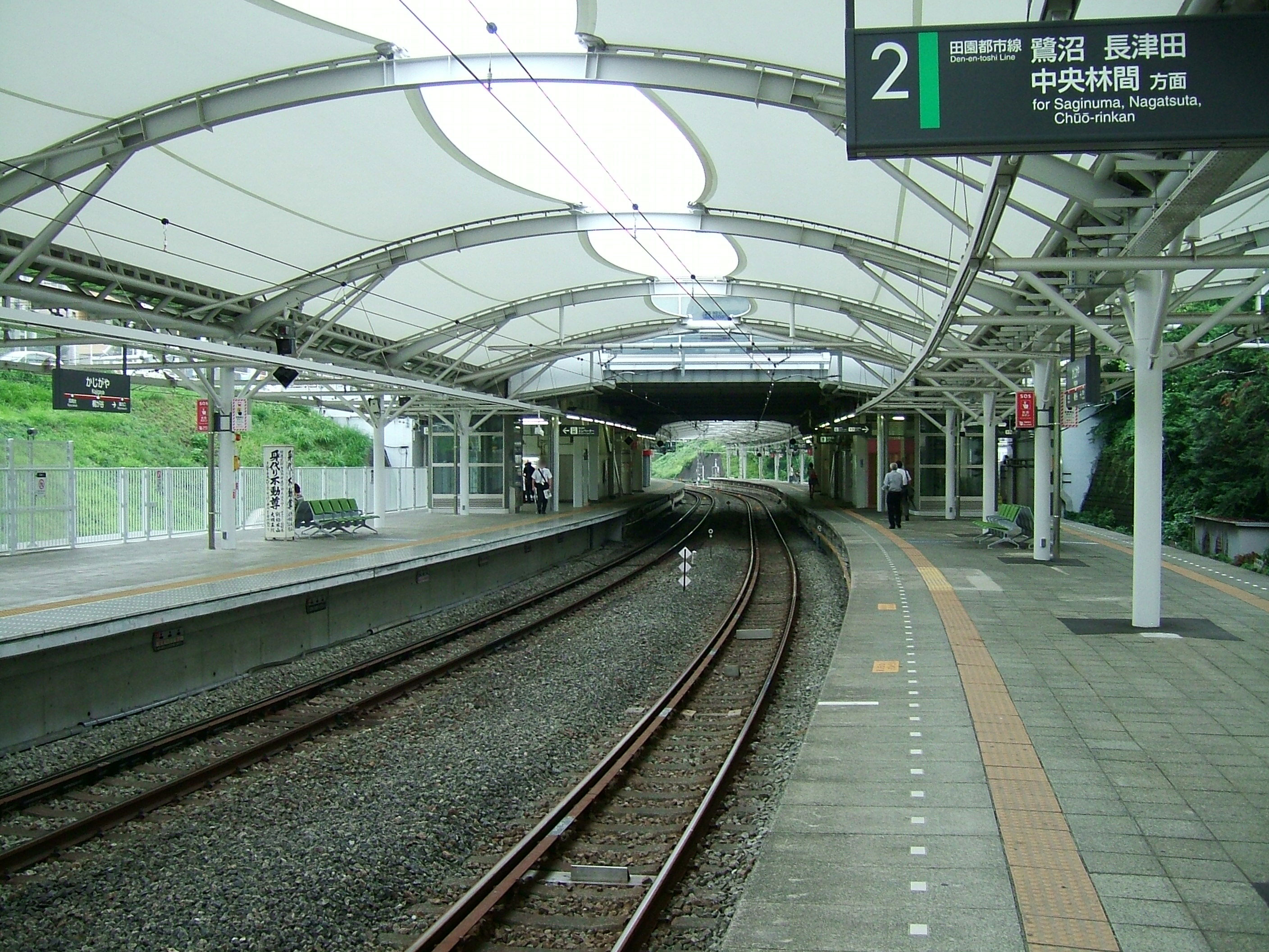 The platforms at Kajigaya Station on the Tokyu Den-en-toshi Line